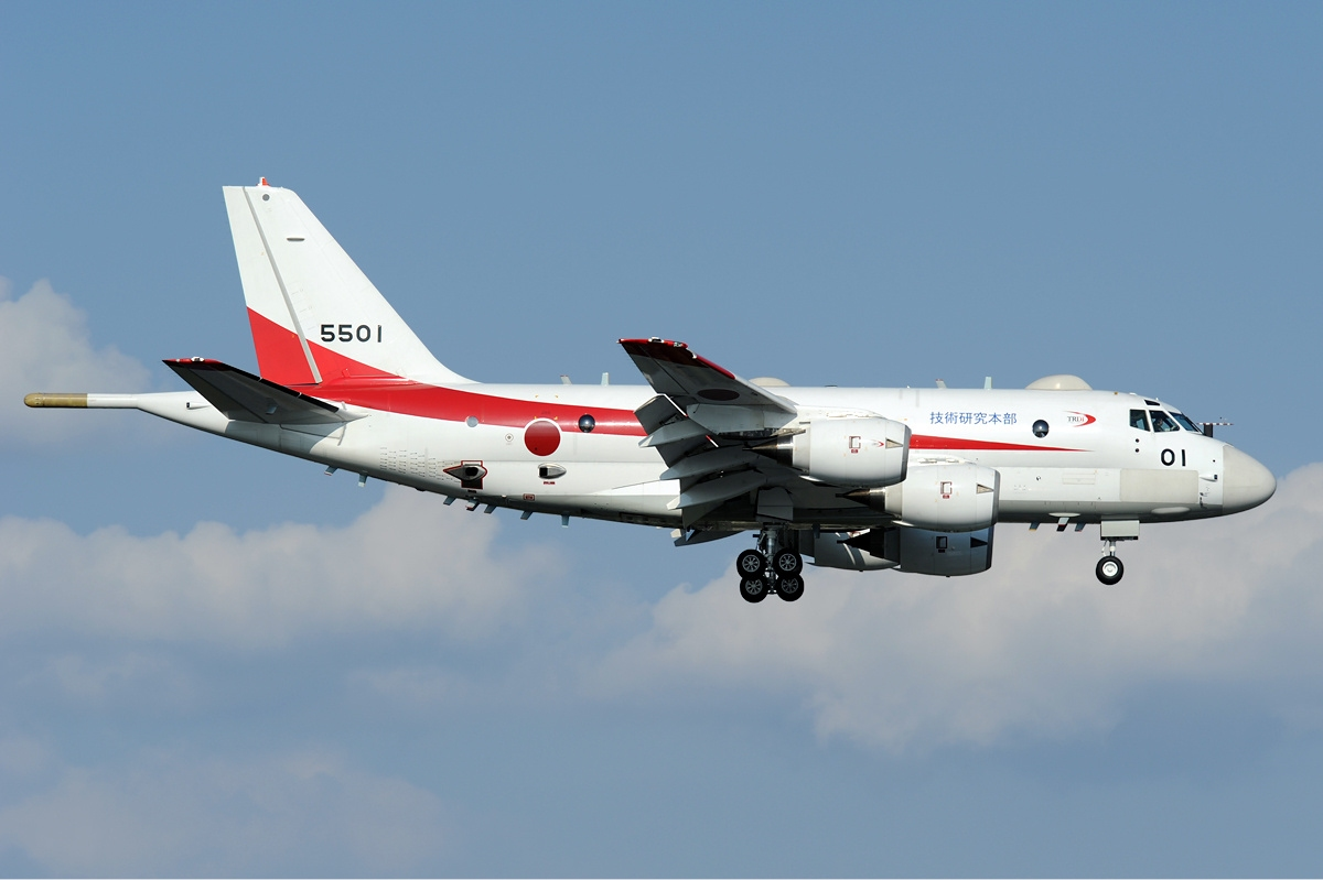 Japan Maritime Self-Defense Force Kawasaki P-1